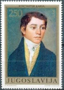 A stamp printed in Yugoslavia shows Painting Pavle Jagodic, with inscription "Konstantin Danil" (1802-1873), from the series "Yugoslav Portraits"